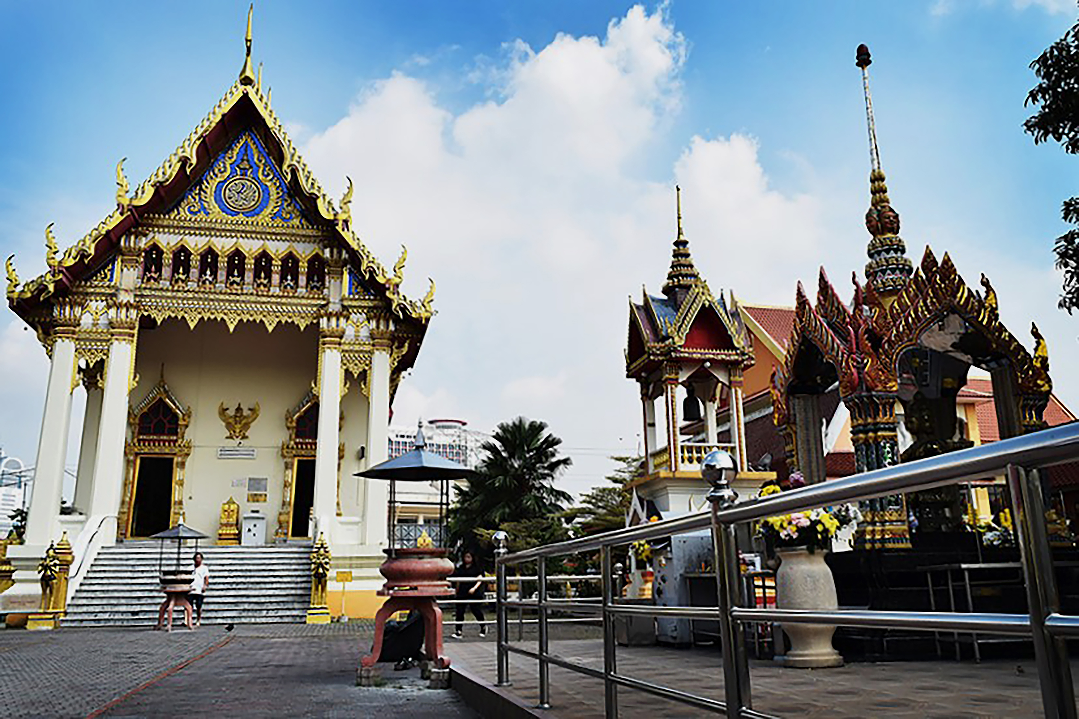 Wat Chetawan